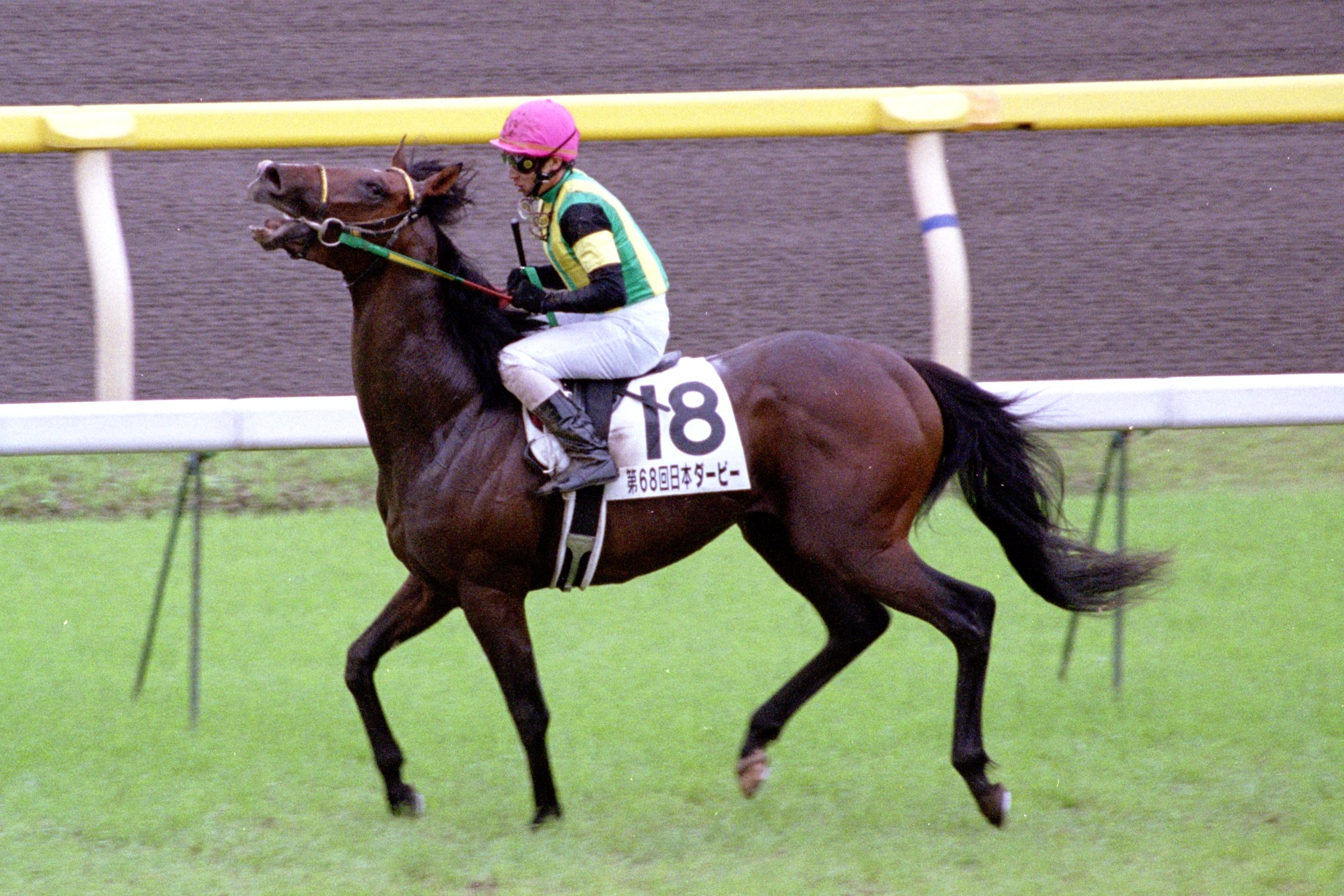 Jungle Pocket at The 68th Tokyo Yushun(Nippon Derby) in Tokyo Race Course